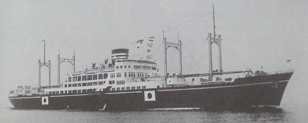 O.S.K. Line Hōkoku Maru